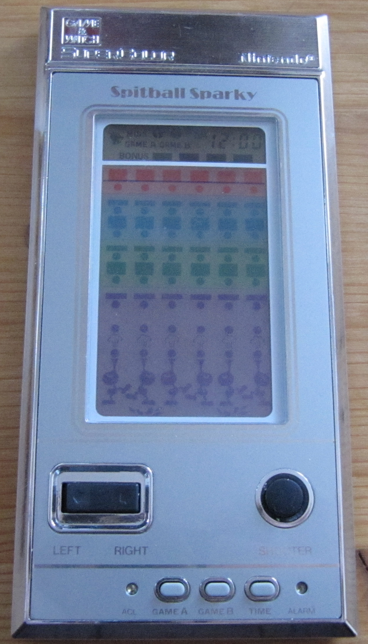 Spitball Sparky